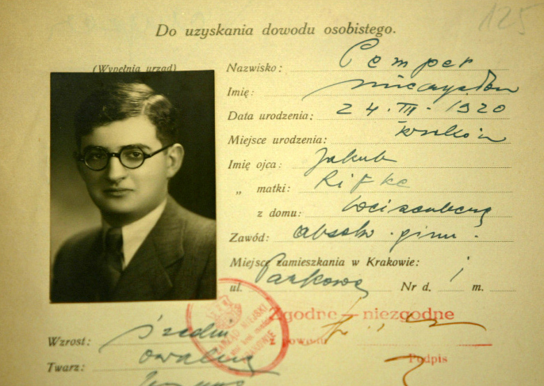 Pemper's application for an identification card in Kraków, Poland.